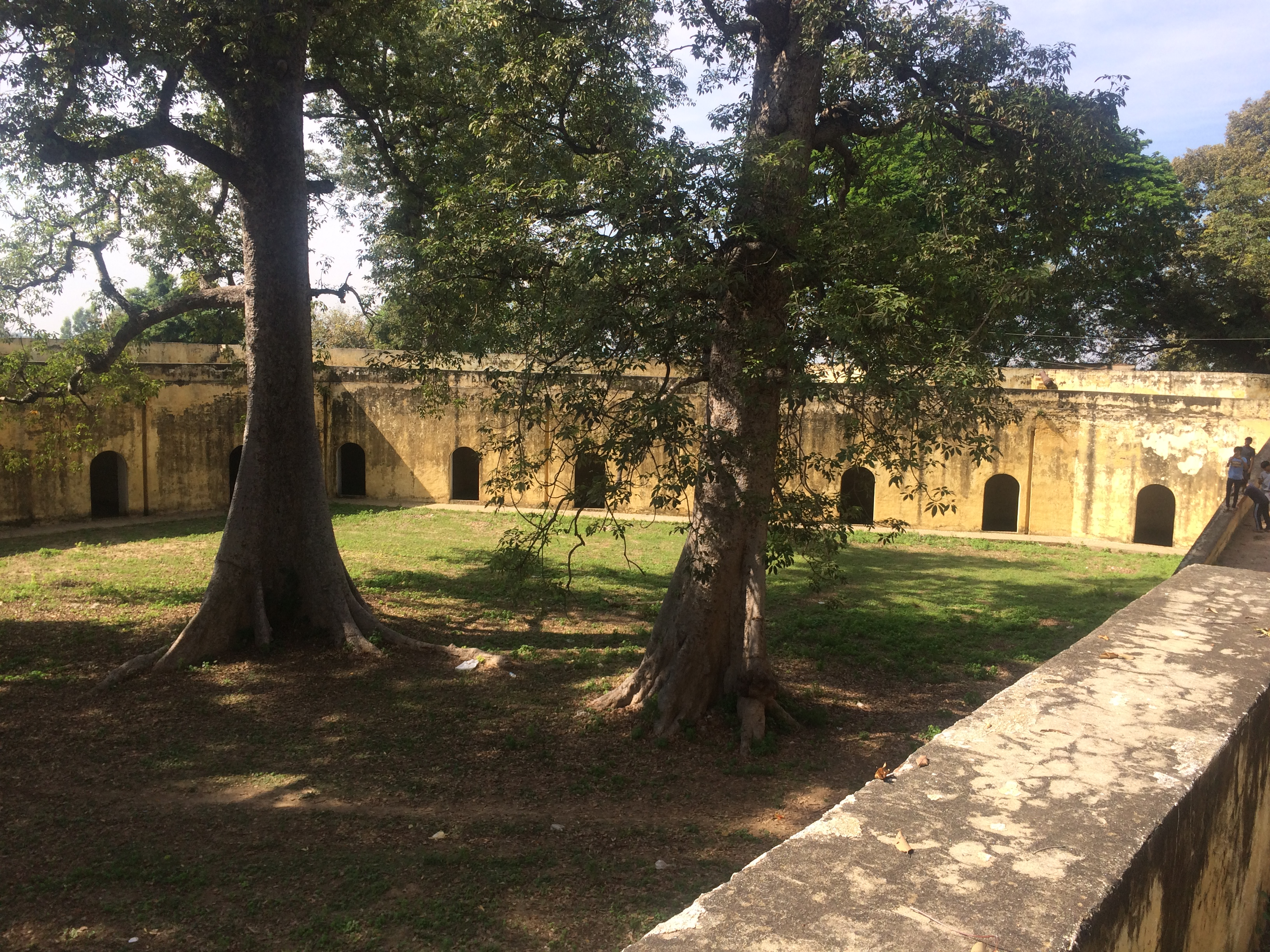 Thapyaytan Fortress near Ava Bridge မြန်မာဘာသာ: အင်းဝတံတားအနီးရှိ သပြေတန်းခံတပ်